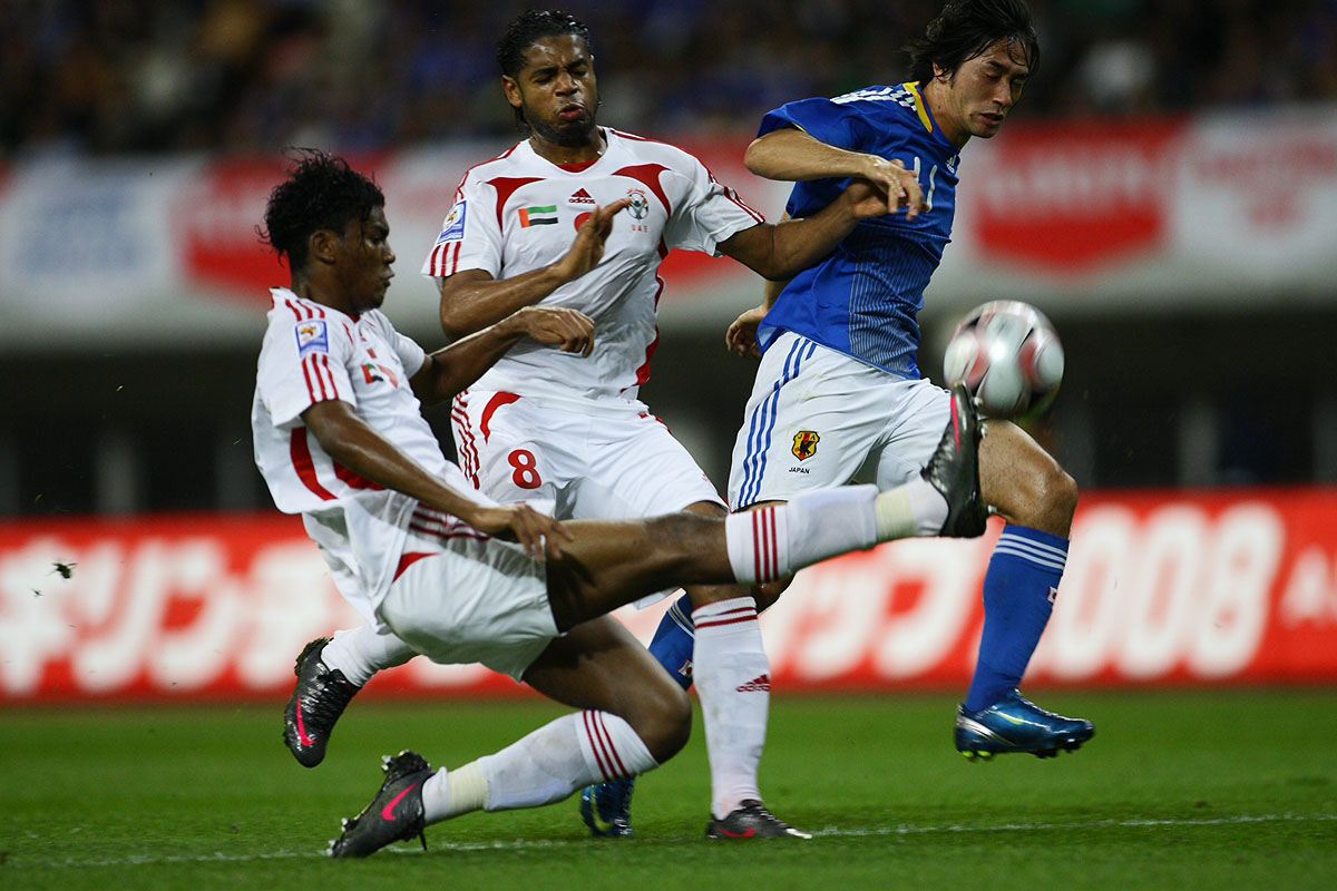 OCTOBER 9, 2008 - Football : Keiji Tamada of Japan in action during the KIRIN Challenge Cup 2008 match between Japan and UAE at Tohoku Denryoku Big Swan Stadium on October 9, 2008 in Niigata, Japan. (Photo by Tsutomu Takasu)